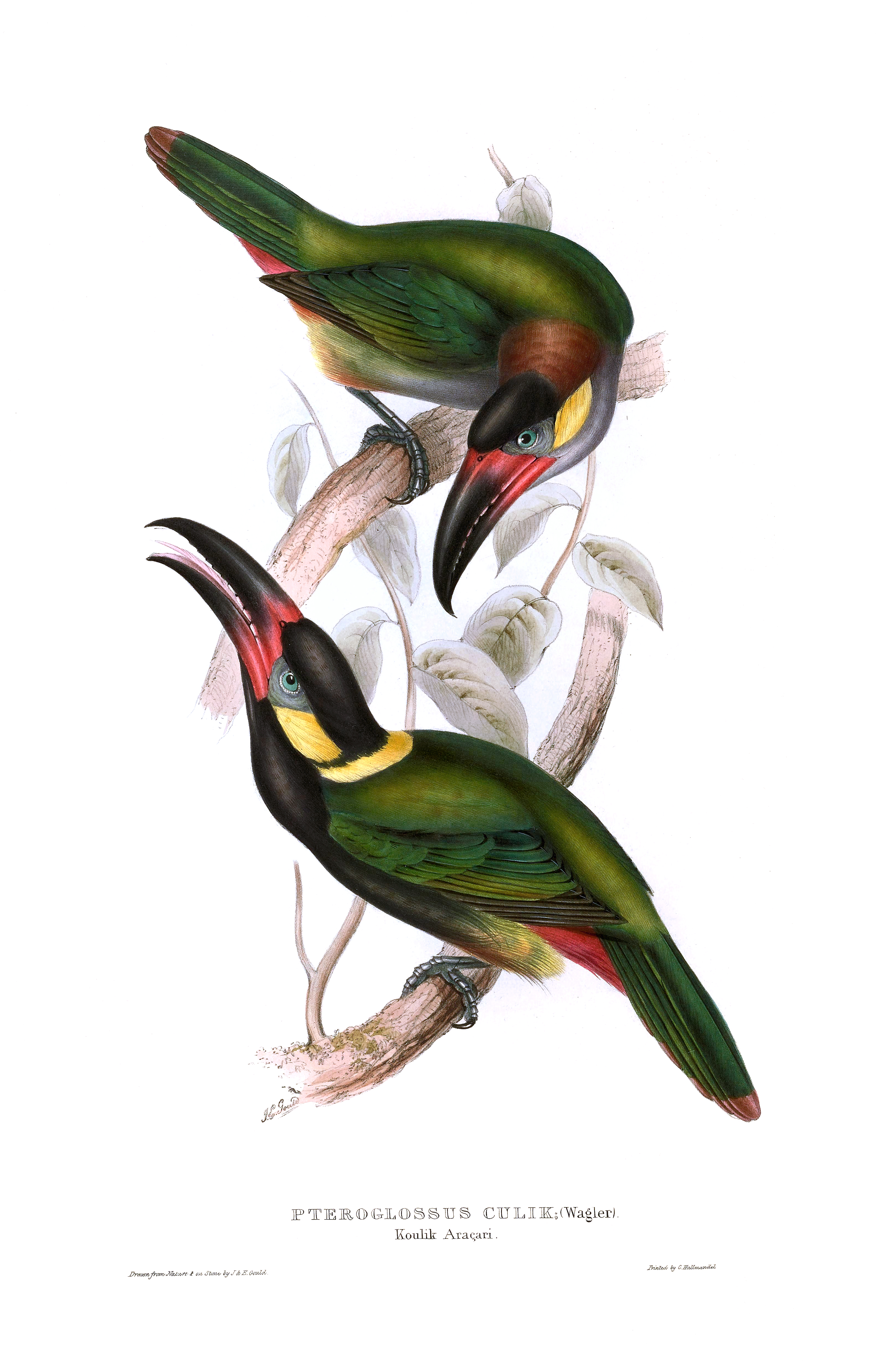 Selenidera culik, Guianan Toucanet